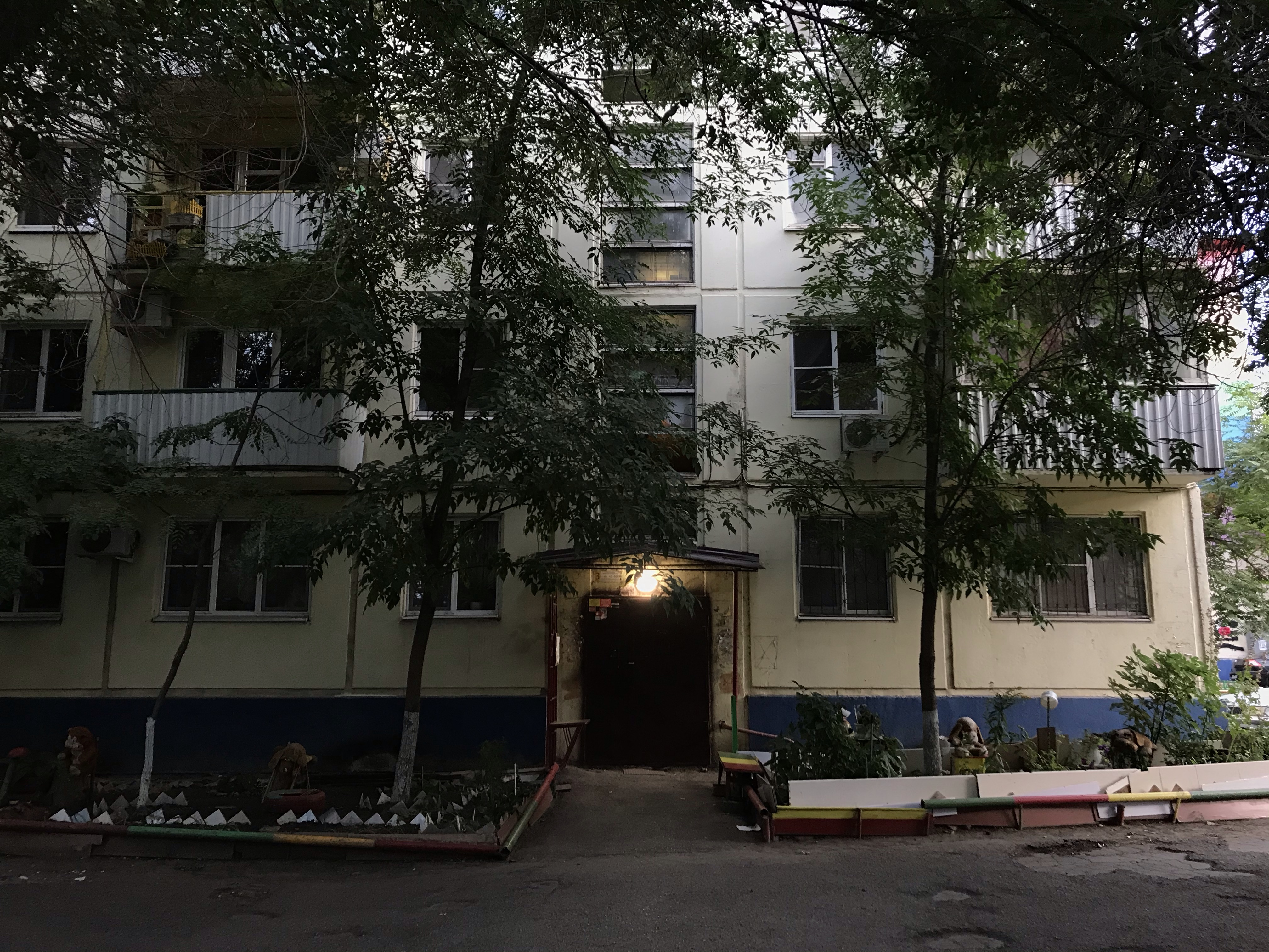 Savushkina Street in Astrakhan